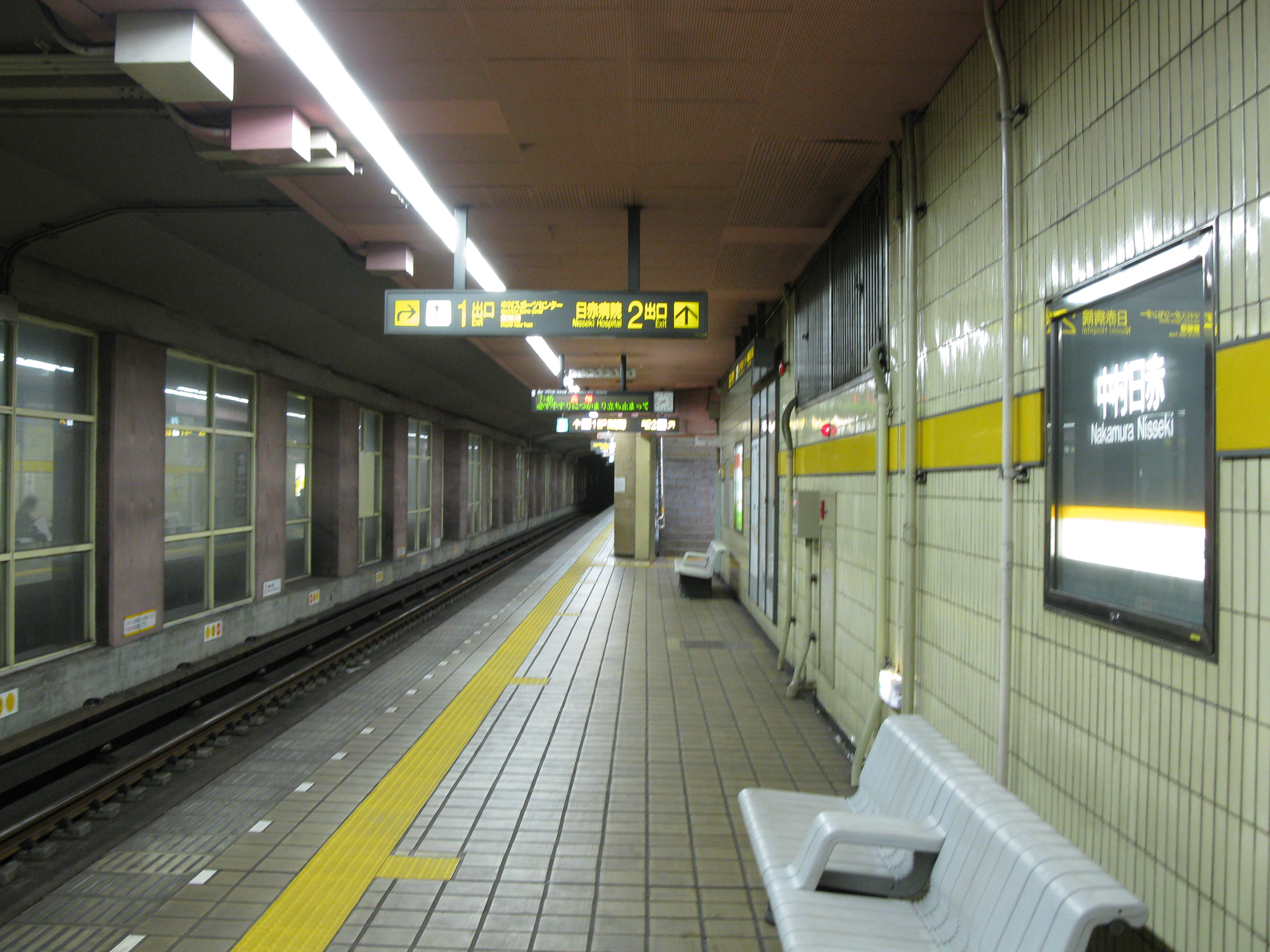 Nakamura Nisseki Station platform (Nagoya Municipal Subway Higashiyama Line)